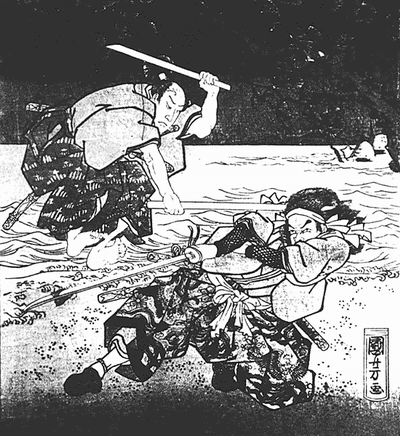 Sasaki Kojiro vs Miyamoto Musashi